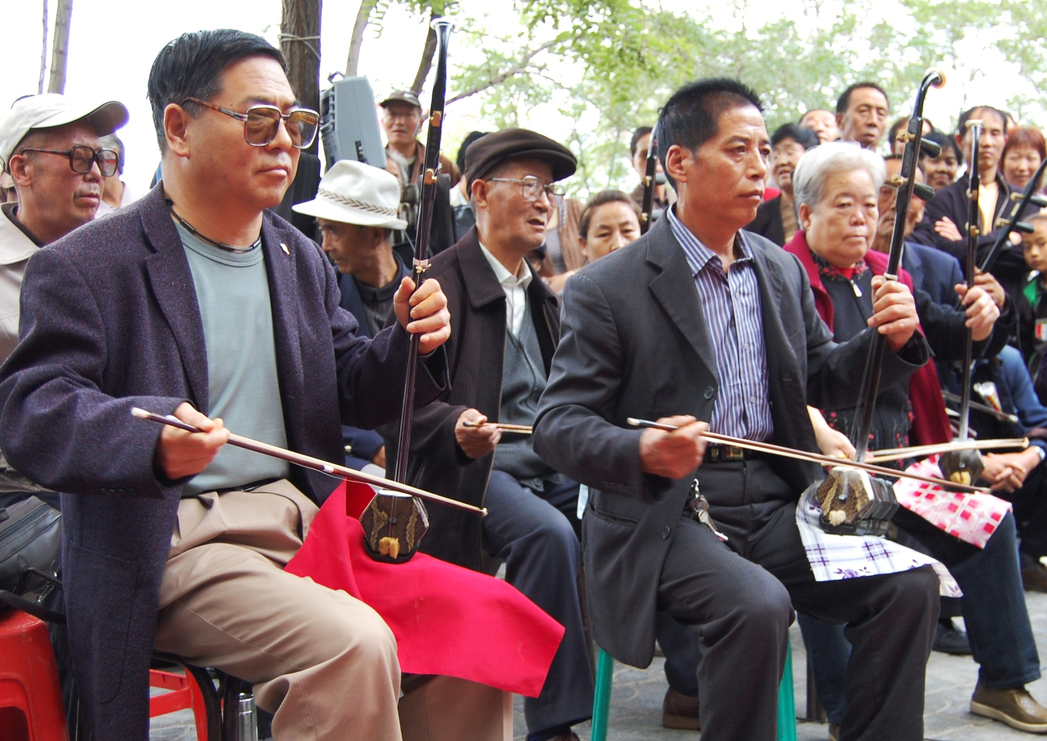 Chinese musicians in Lanzhou